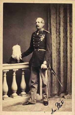 Peter Henrik Glode (Claude) du Plat (1809-1864), Danish major general